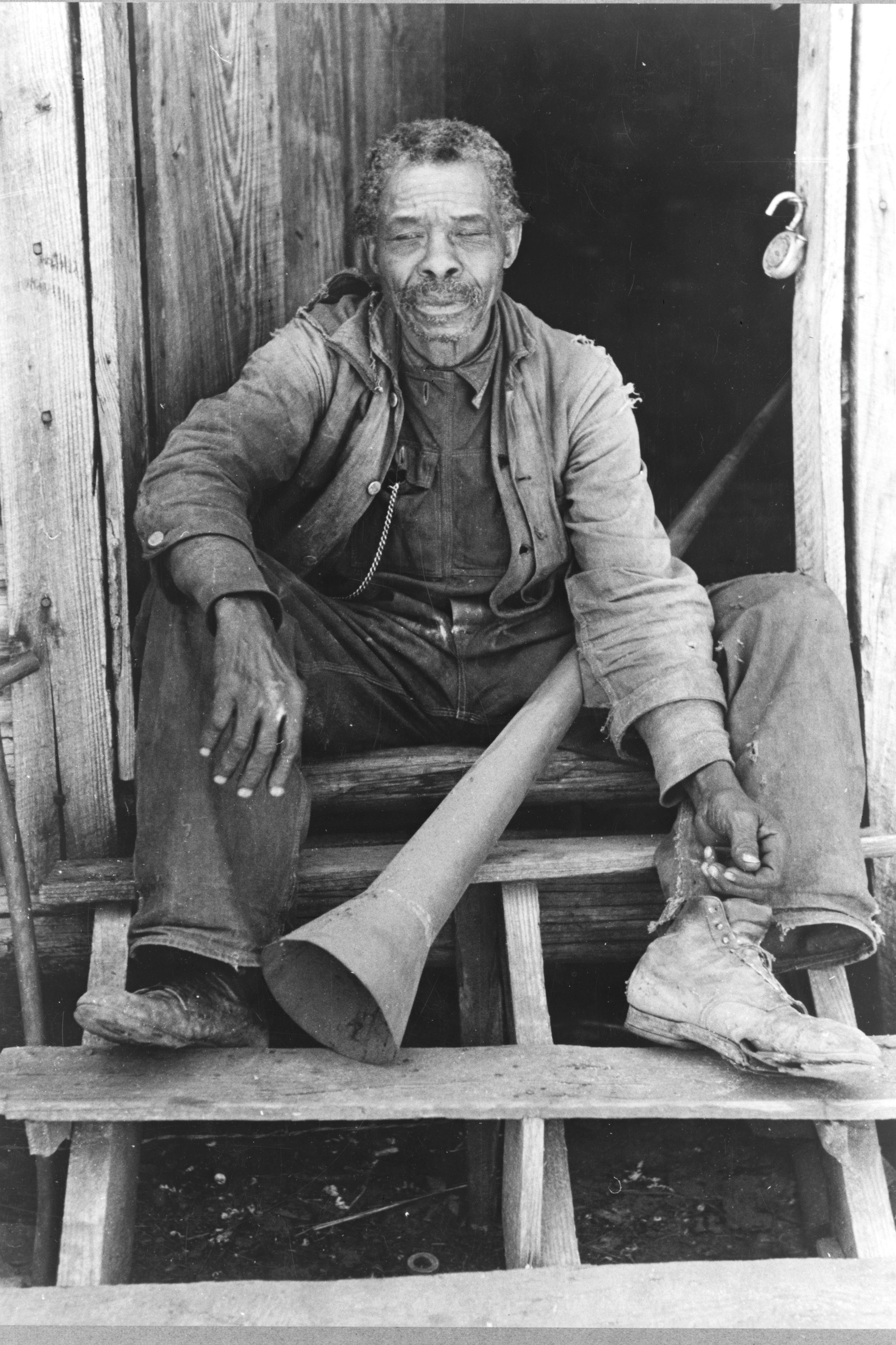 Old Negro (former slave) with horn with which slaves were called. Near Marshall, Texas. Russell Lee photographer, 1939.